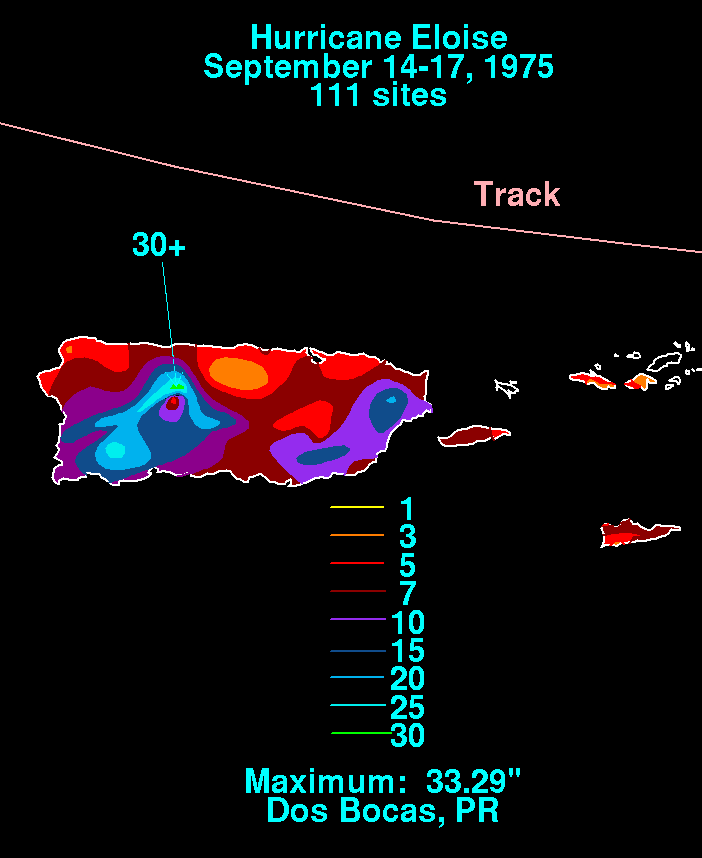 Storm total rainfall map of Hurricane Eloise in Puerto Rico during September 1975.